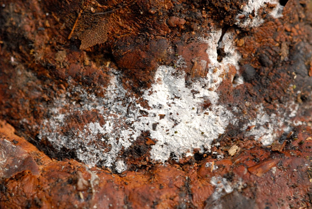 Tubulicrinis borealis from Commanster, Belgium. If you think this is a different taxon, please contact James Lindsey.